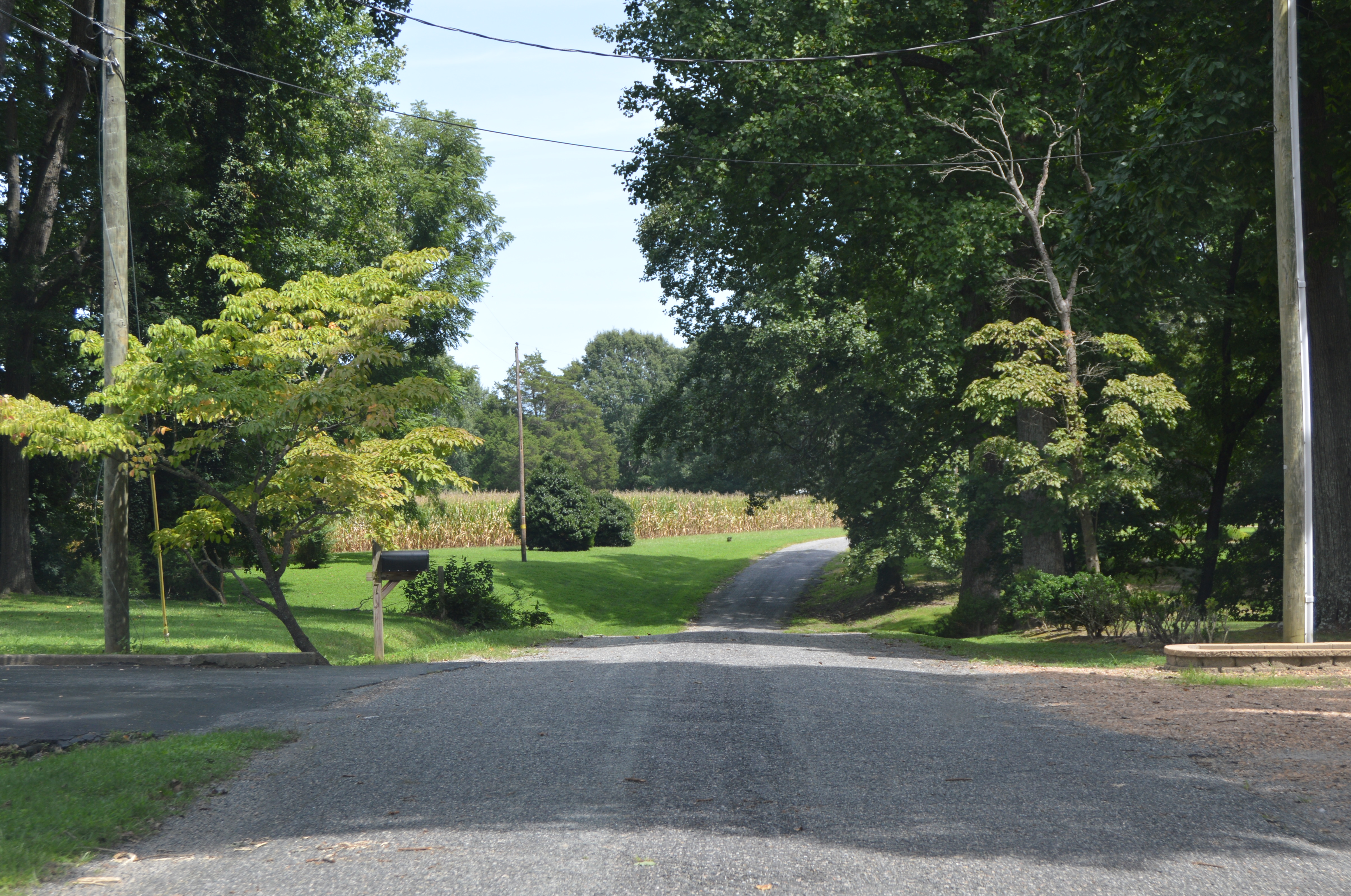 Entrance to the Clifton property, located at the end of Clifton Avenue in the Northumberland County section of Kilmarnock, Virginia, United States. The property is listed on the National Register of Historic Places.